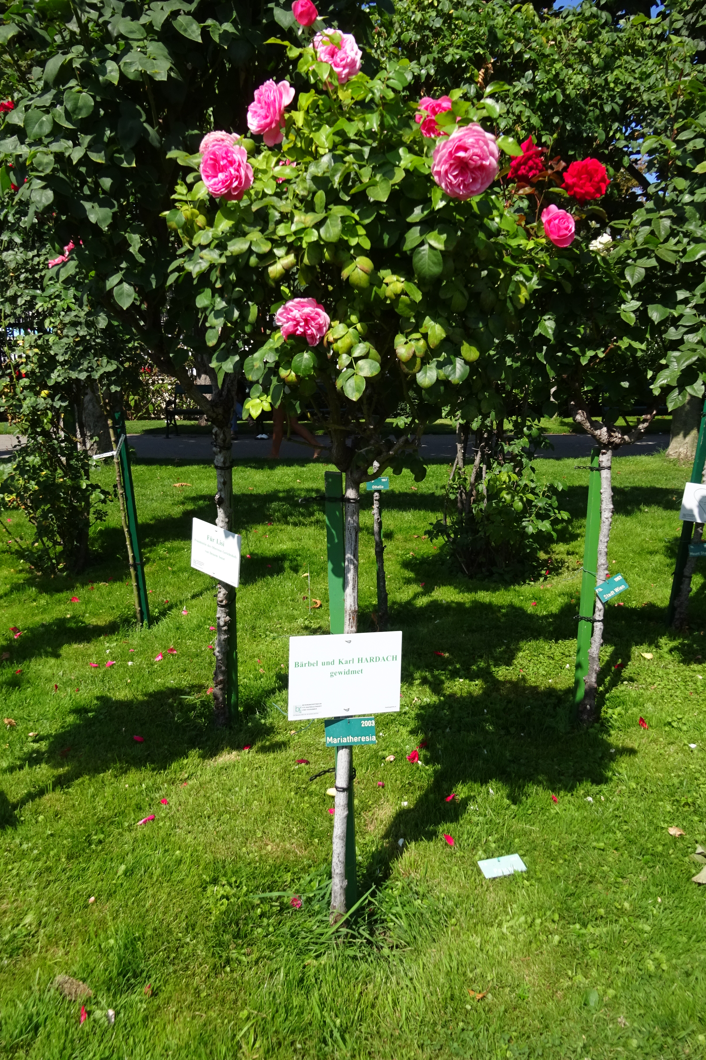 In May 2018, in honor of the married couple Bärbel and Karl Hardach, who have lived temporarily in the cosmopolitan city of Vienna, a multi-year sponsorship for a rosebush in the first row of the Vienna Volksgarten, in which they often liked to stay, was taken over by their friends, the family Reiter.